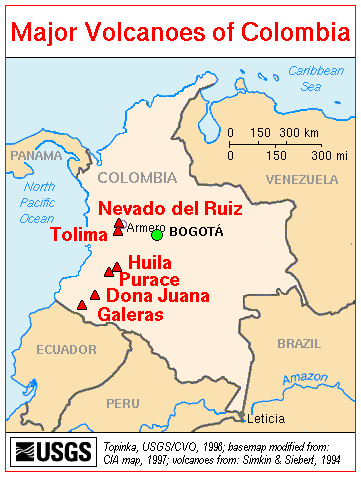 A map of all the major volcanoes in Colombia